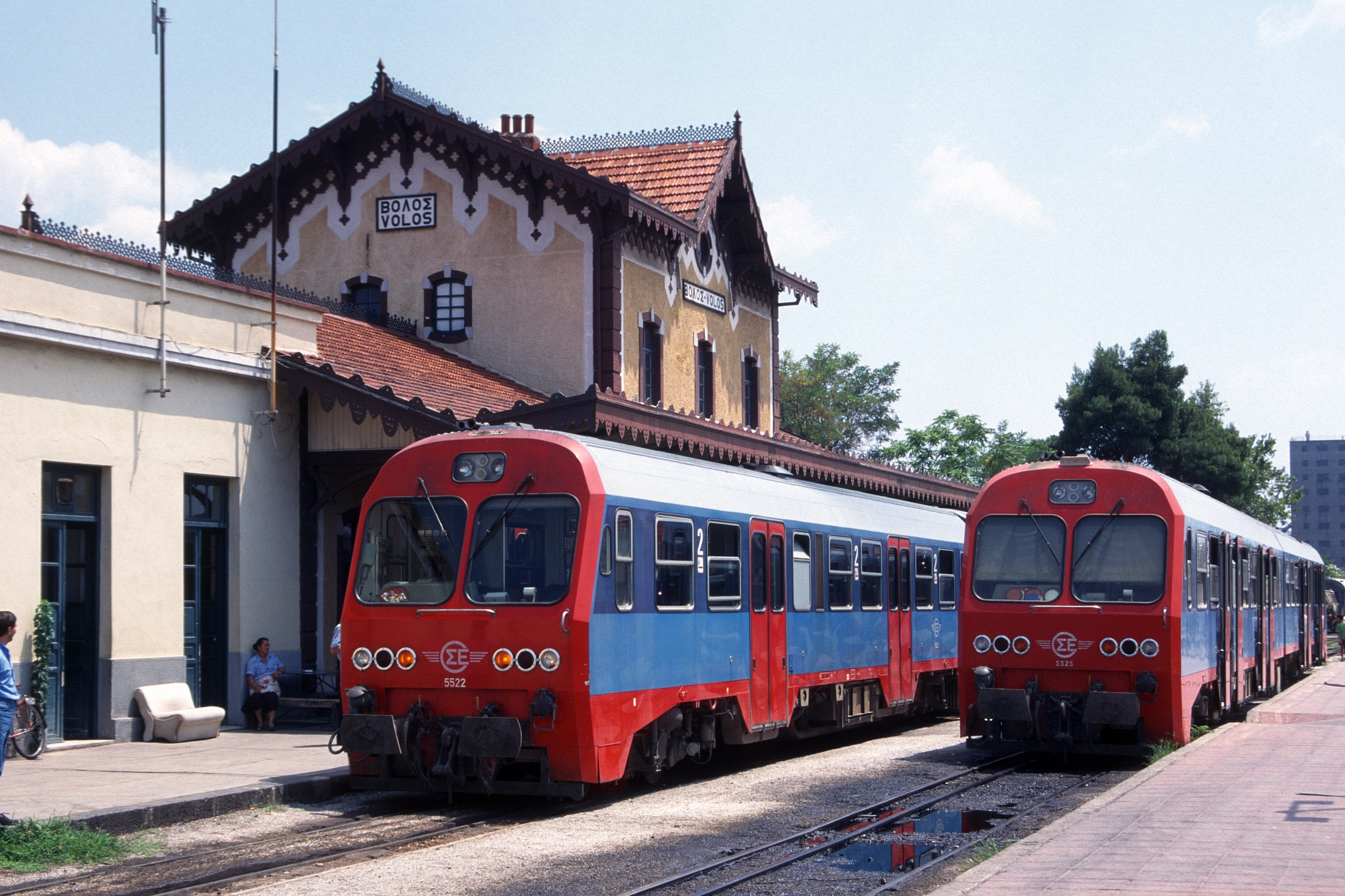 Two meter gauge DMUs on dual-gauge tracks in Volos.